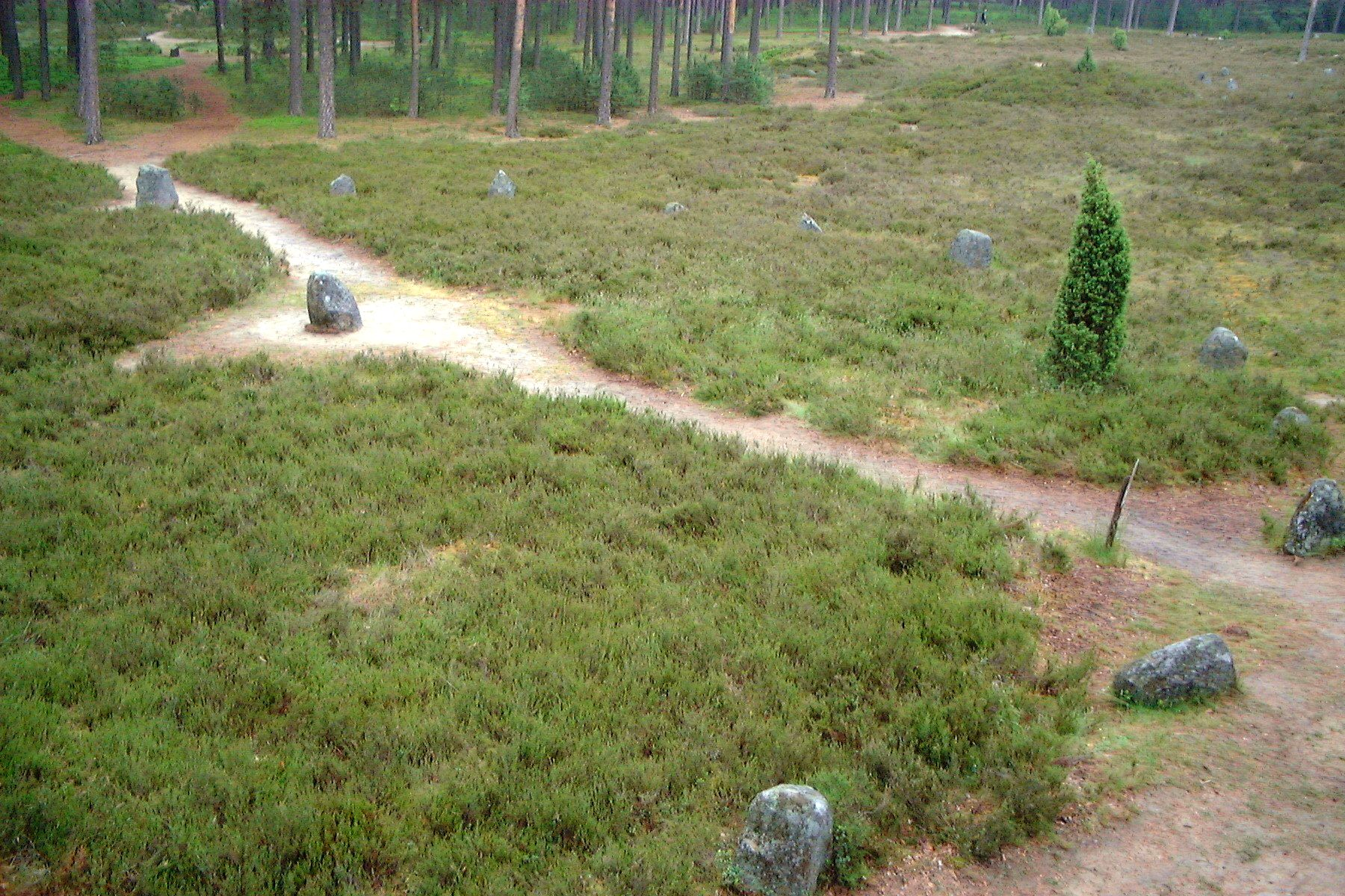 Poland, Odry - stone circle.